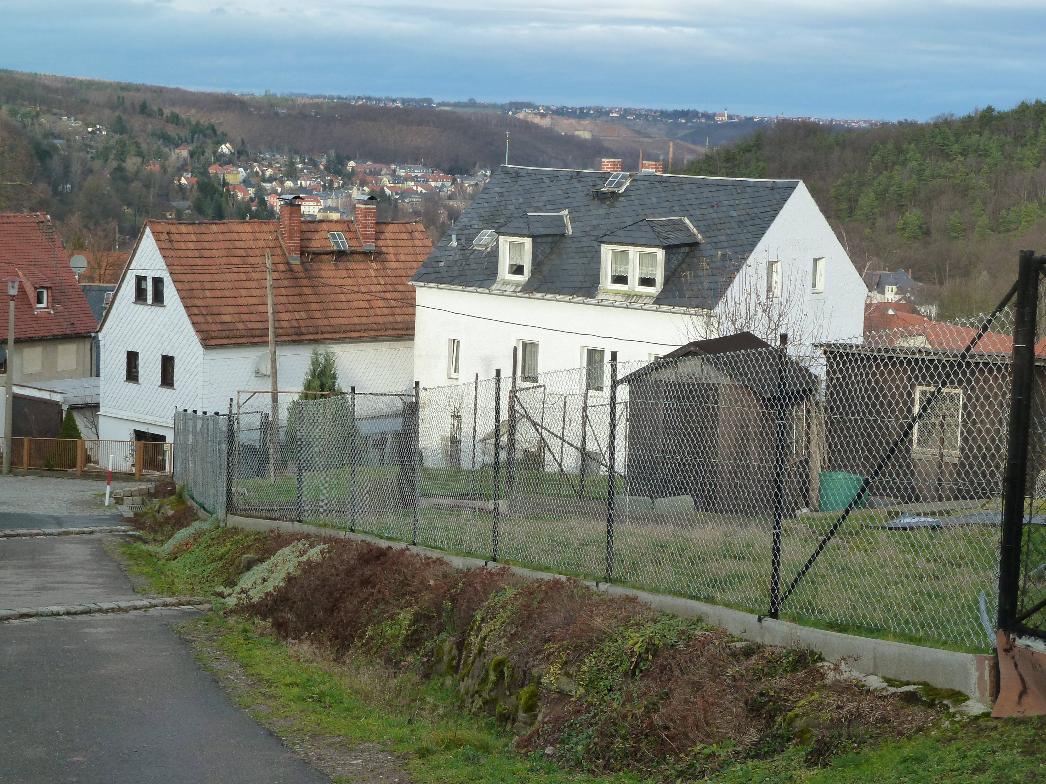 Peasants´ houses of Eckersdorf manor; built about 1700.